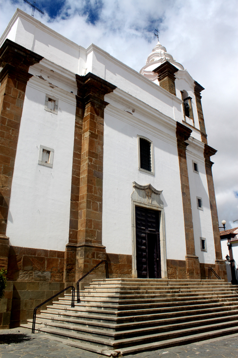 Church of Almodôvar - Portugal